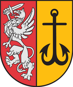 The arms were granted in 1925. Ainaži was initially a village of Livonian fishers. Its name means "lonely" in Livonian, because it was the only one village on large environs. In the middle of the 19th century a group of Latvian and Estonian masters established in Ainaži a small shipyard of sailboats. Krišjanis Valdemars, a leader of Latvian national renascence, realized that the local fishermen are good sailors, but the lack of professional skills stopped the development of long distance sailing and merchant shipping. Valdemars organized the fishermen of Ainaži and established a nautical school in 1864. It was the beginning of rapid growth of the town and seaport. City rights were granted in 1926. The arms were granted a little sooner, in 1925. The inhabitants chose an anchor as a symbol of seaport. The griffin was taken from the Vidzeme arms.